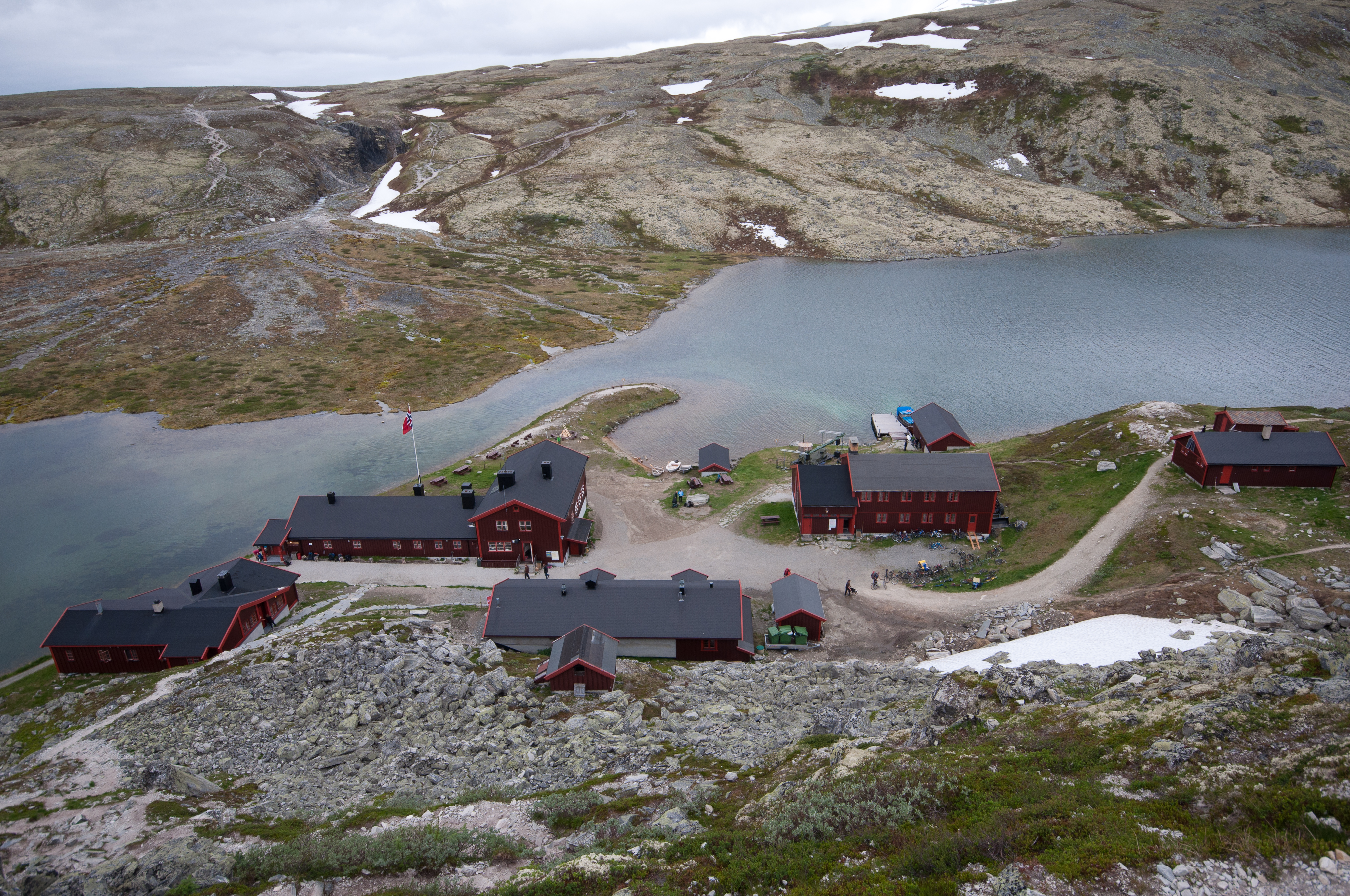 Rondvassbu in Rondane